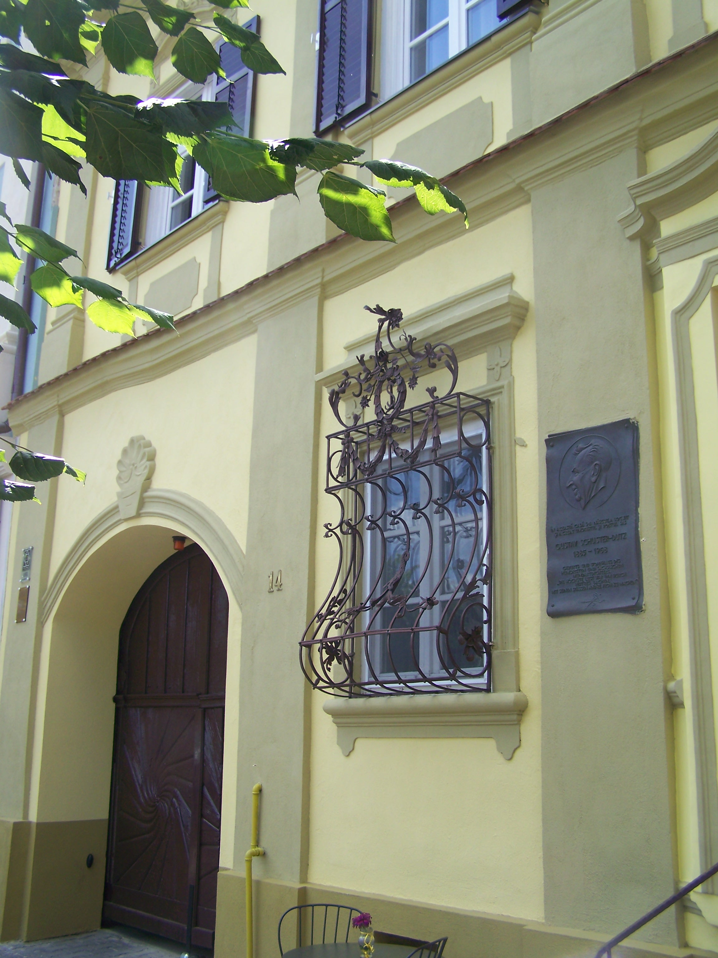 Schuster Dutz house in Medias.